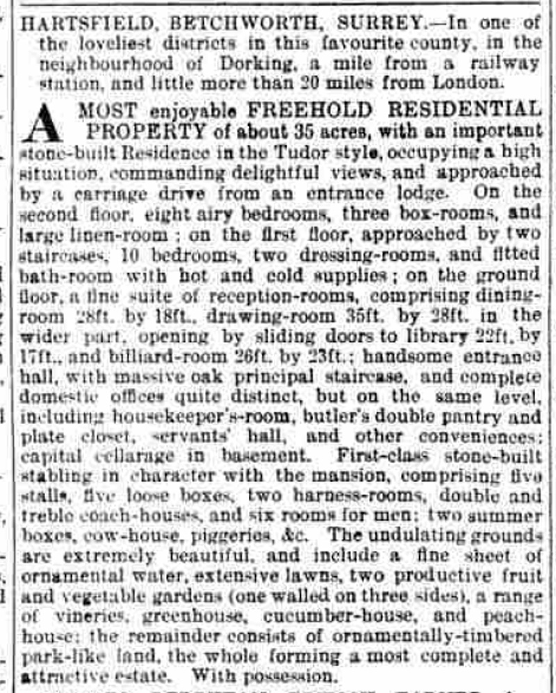 Sale notice for Hartsfield Manor, Betchworth, Surrey